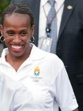 First Lady Michelle Obama, along with athletes April Holmes, center, and Jackie Joyner Kersee, right, watch as President Barack Obama participates in a fencing demonstration with Tim Morehouse on the South Lawn of the White House, Sept. 16, 2009.